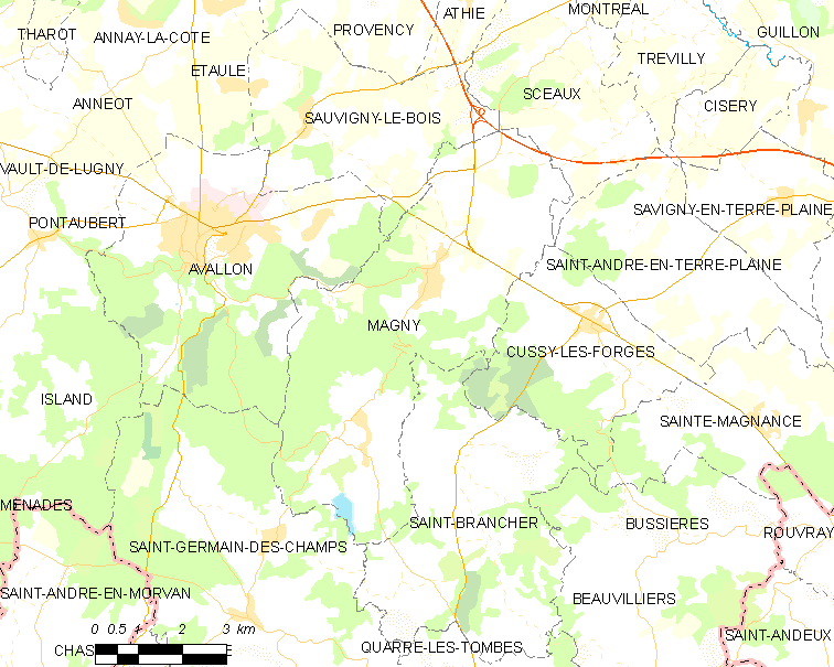 Map of French municipality Magny